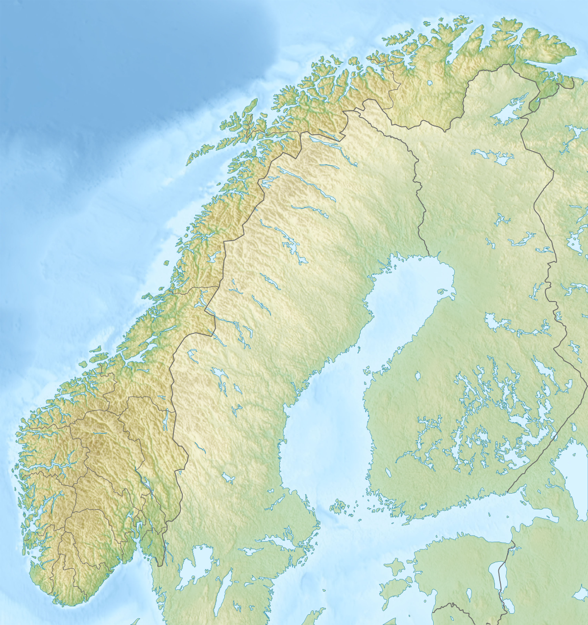 Relief map of Norway Equirectangular projection, N/S stretching 210 %. Geographic limits of the map: N: 71.5° N S: 57.6° N W: 4.1° E E: 31.6° E